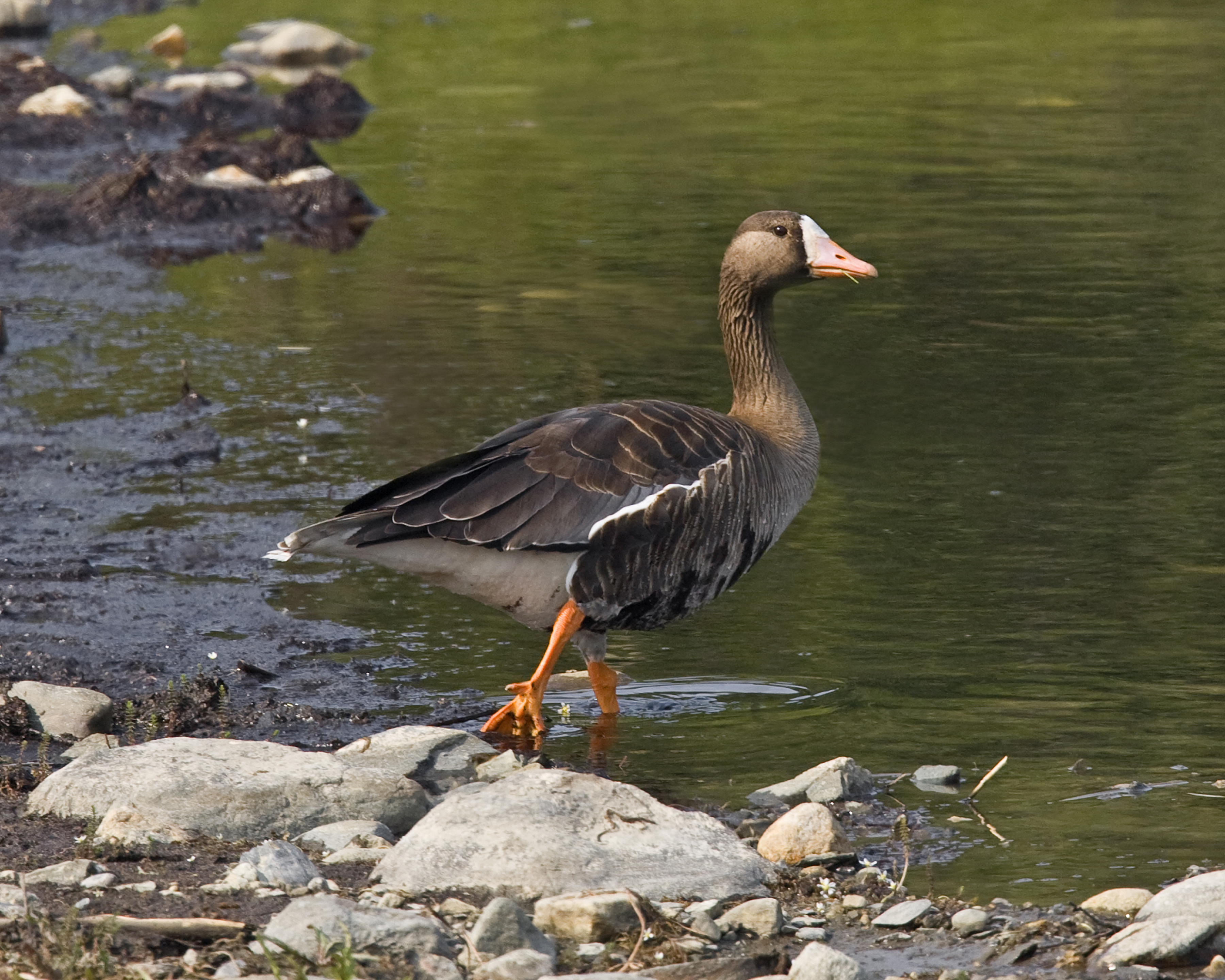 Greater White-fronted Goose (Anser albifrons), Denali National Park and Preserve, AK, USA